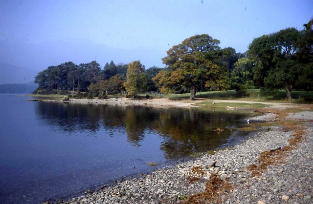 Friars Crag This Derwent Water beach runs around to the wooded Friars Crag on the left. The crag achieved its name because it was believed to be the embarkment point for monks making a pilgrimage to St Herbert's Island, located south-west of the crag.